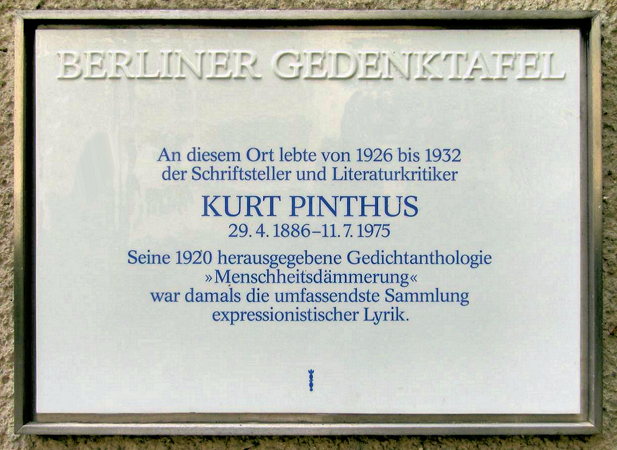 Berlin memorial plaque, Kurt Pinthus, Heilbronner Straße 2, Berlin-Schöneberg, Germany Koordinate:52°29′38″N 13°20′24″E / 52.49389°N 13.34°E